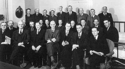 United Farmers of Alberta banquet in honour of Hugh W. Allen, Alberta Labour Council. Back row L-R: W. E. Lyons; C.D. Lane; Geroge Winkelaar; Milt E. Ward; Fred McDonald; J.R. Tomlinson; R.E. Chowen; J.M. Wheatley; J.R. Love. 2nd row L-R: Lorne Proudfoot; F.J. Fitzpatrick; J.L. McMillan; S.W. Sheppard; A.W. McIntyre; C.H. Crofford; Claude Campbell; R.M. Hibbert; Norman F. Priestly; J.R. Harold. Front row L-R: John E. Brownlee; George Church; C.P. Hayes; Hugh W. Allen, president of the Alberta Labour Council; Rolphe Barnes; E.H. Keith; Gordon F. McClary.